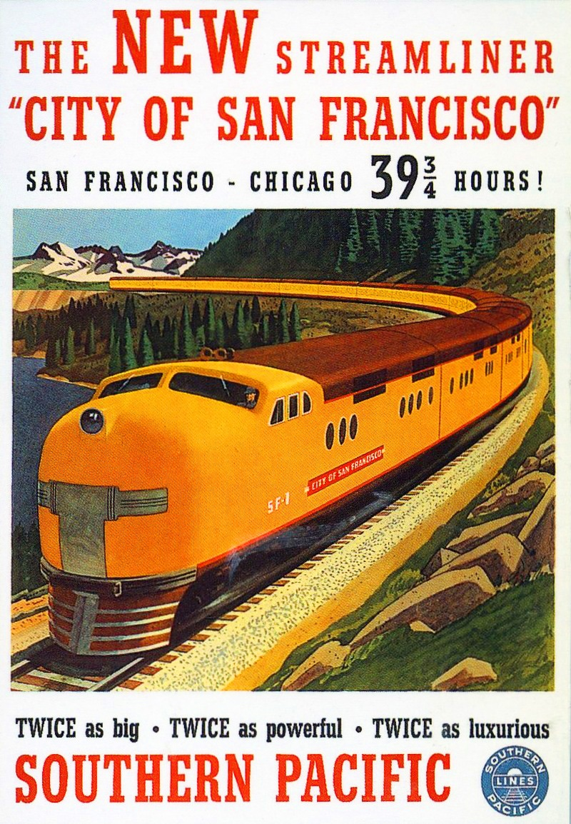 Southern Pacific poster ad promoting their second "City of San Francisco" Streamliner